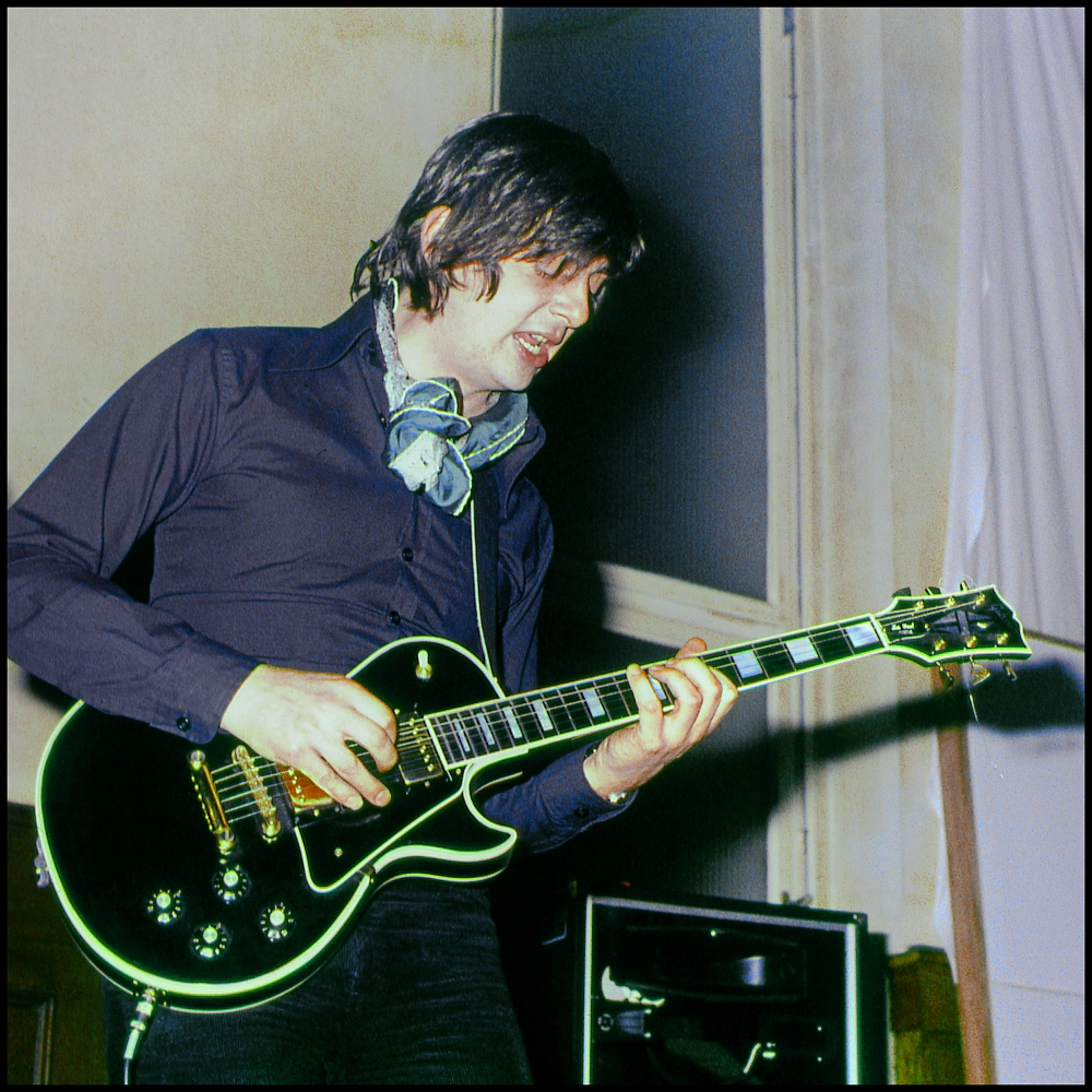 Philip Chatherine with 'Pork Pie', during the 1970s in the Börse Wuppertal.